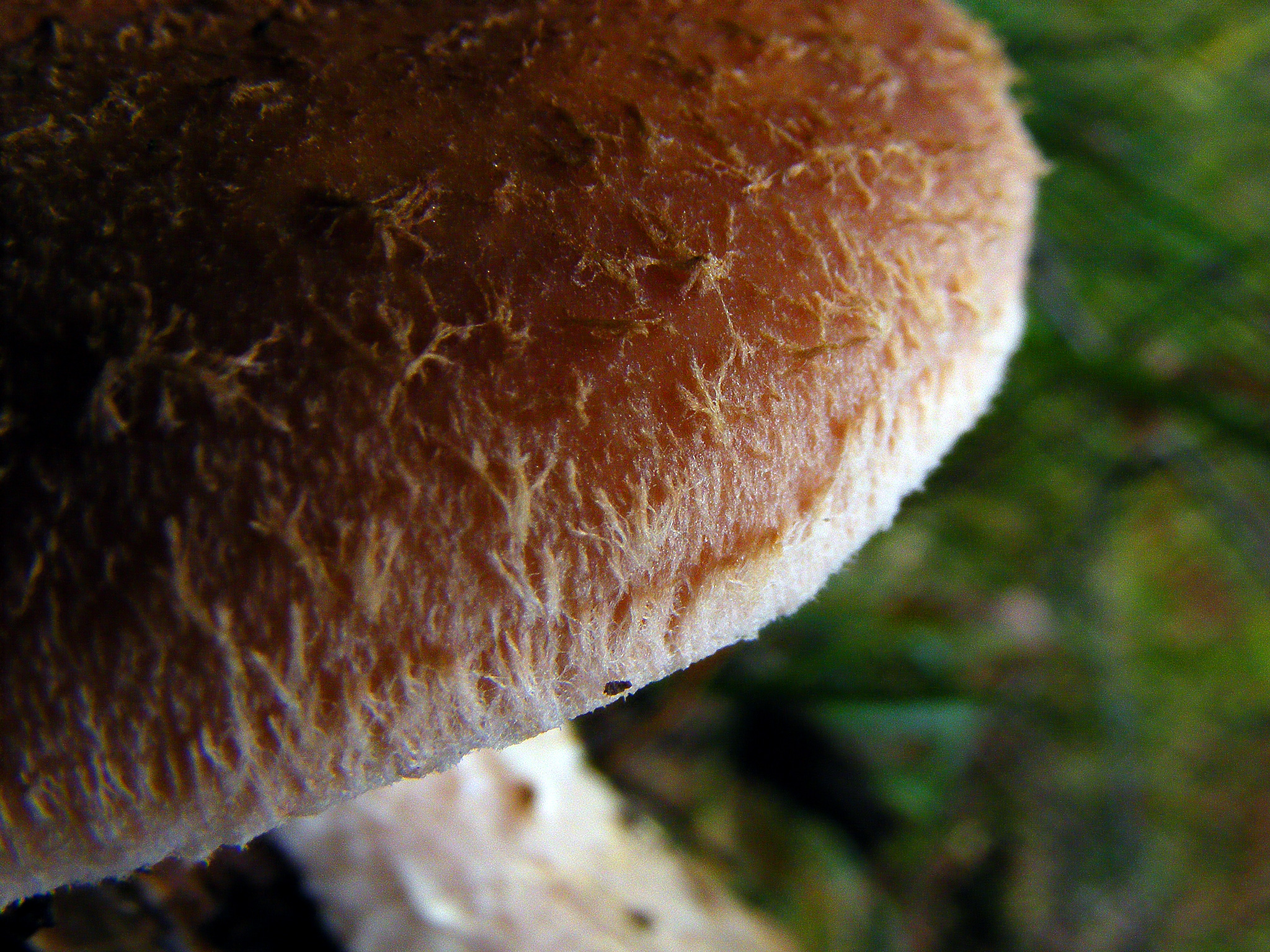 Armillaria ostoyae - pileus.